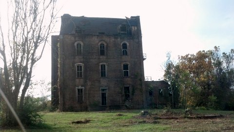 The school building today.